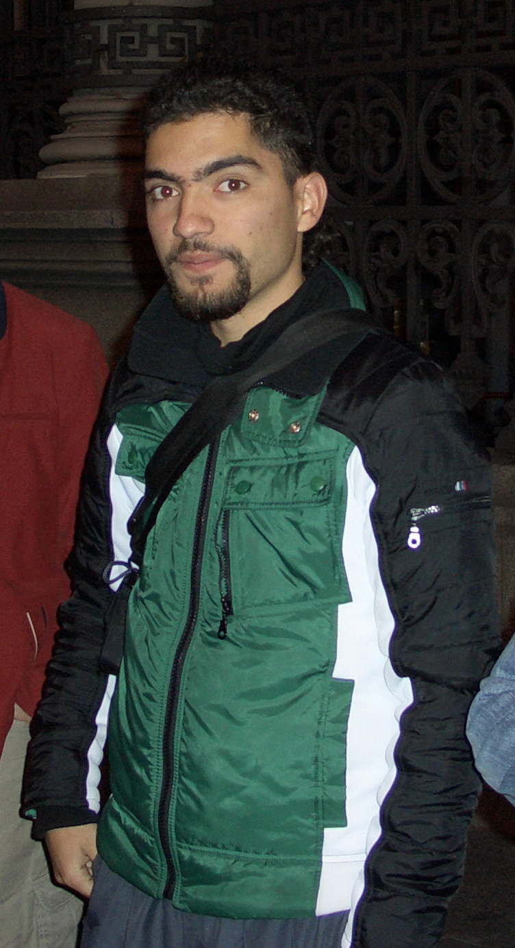 Picture of the general secretary of the student union.